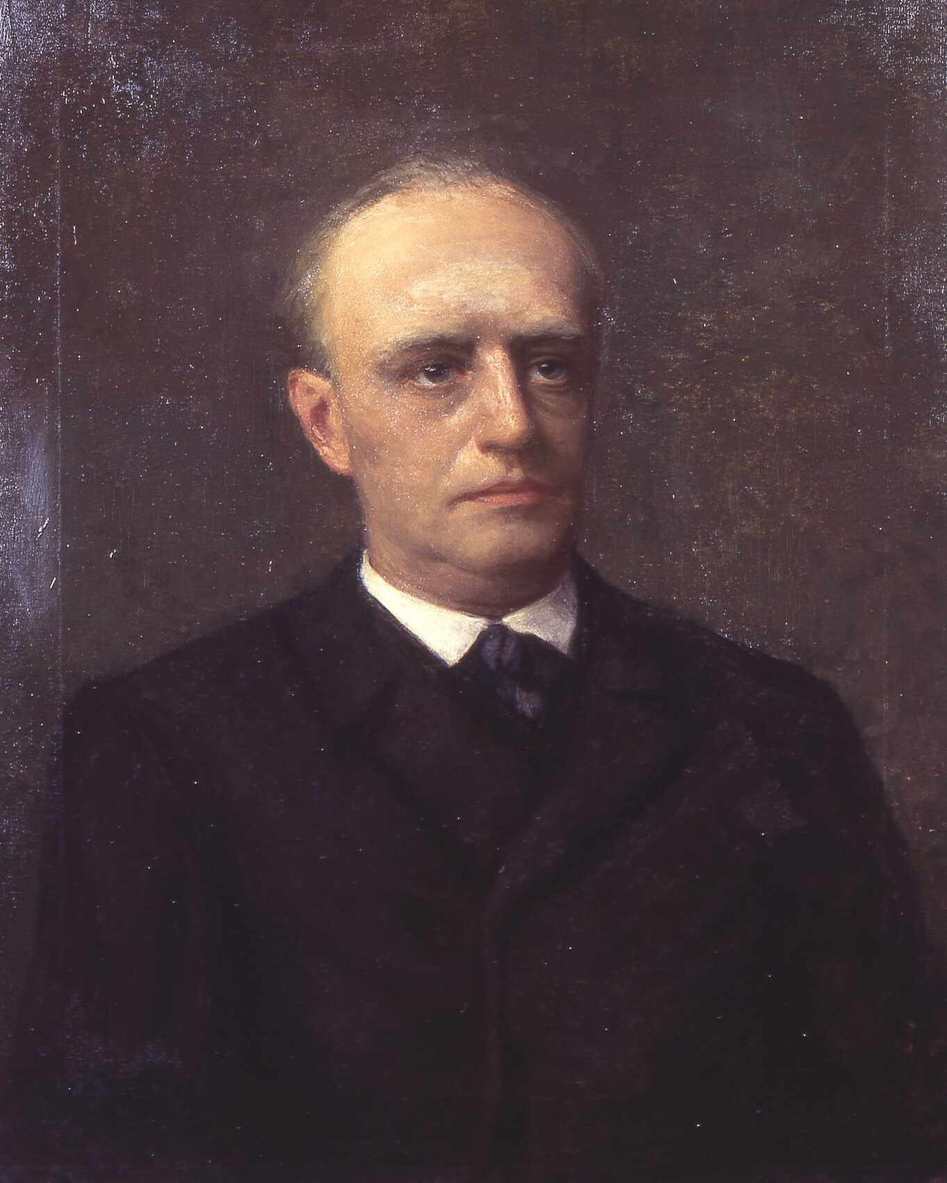 Johannes Theodorus Buys (1828-1893), professor at Leiden University (law)